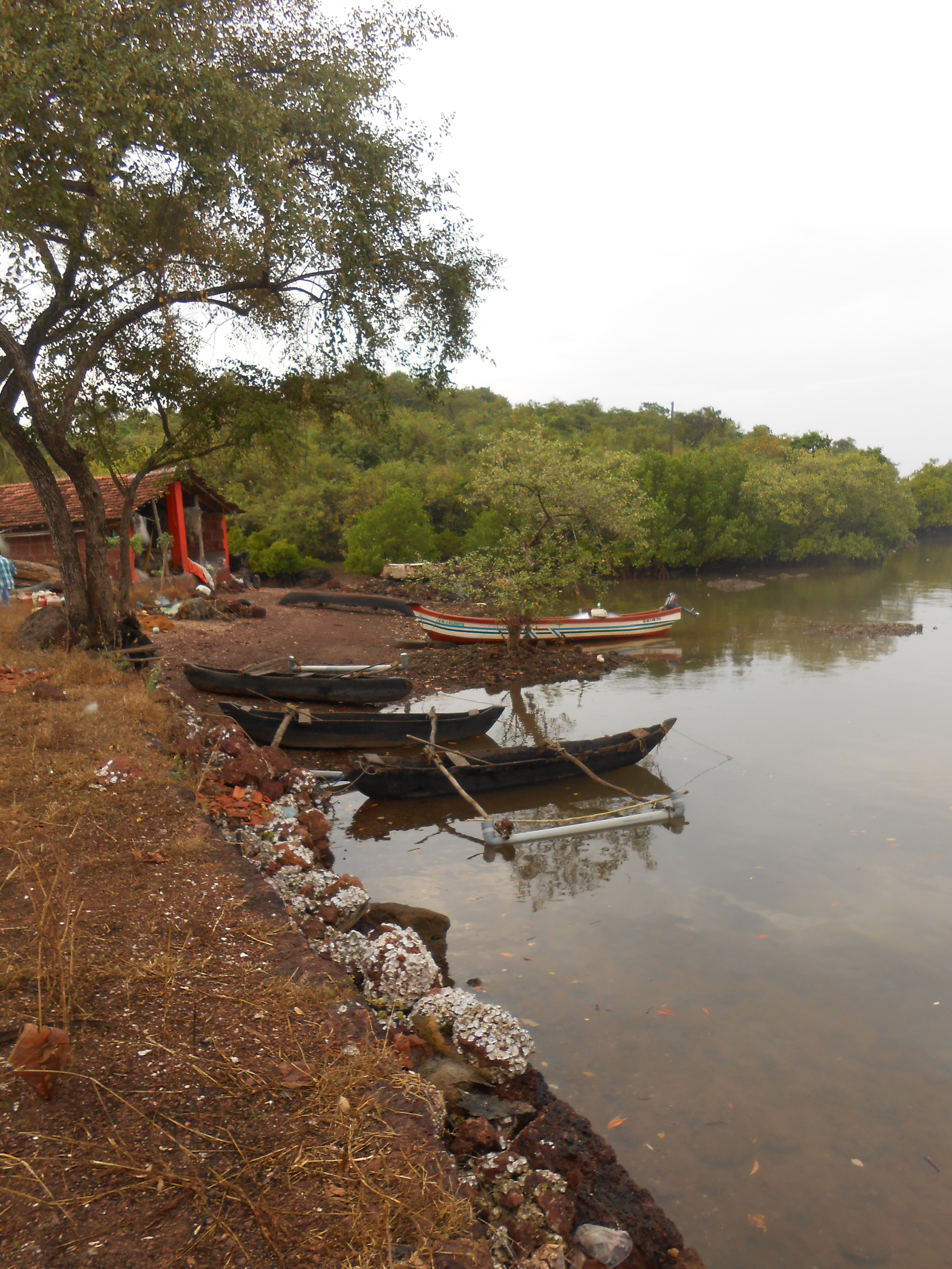 Image of Rameshwar Port (Rameshwar Godi)